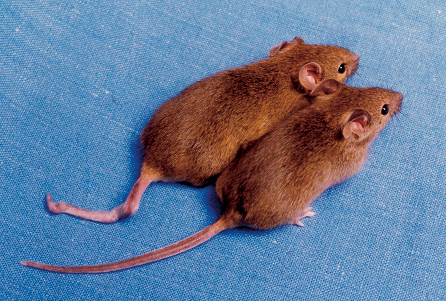 Spot the Difference: Same Genes but a Different Kink in the Tail. Geneticist Emma Whitelaw (University of Sydney, Australia) studies phenomena in mice similar to those seen in human monozygotic twins, whereby genetically identical individuals can look or behave very differently. About a decade ago, she explains, ‘we noticed that in a litter of mice that had all stably inherited a transgene at a specific locus, some mice expressed the transgene, but others didn't’. This variable gene expressivity in genetically identical animals suggested that some kind of epigenetic mark had occurred differentially between individuals by chance. Similarly, identical mice carrying the agouti viable yellow coat colour gene can range in colour from yellow through mottled to brown, depending on whether the gene is expressed or not. And while a mutation in the axin gene called axin-fused produces mice with kinky tails, the degree of kinkiness varies among genetically identical littermates (Figure). For all these mice, Whitelaw has discovered that the mysterious epigenetic marks responsible for variable expressivity are inherited between sexual generations. So, in the case of the agouti viable yellow mice, yellow mice have more yellow offspring than mottled or brown offspring. Variable expressivity may be a quicker way to deal with environmental change than DNA mutation and, suggests Whitelaw, it may be that variable expressivity is involved in some way in evolution.